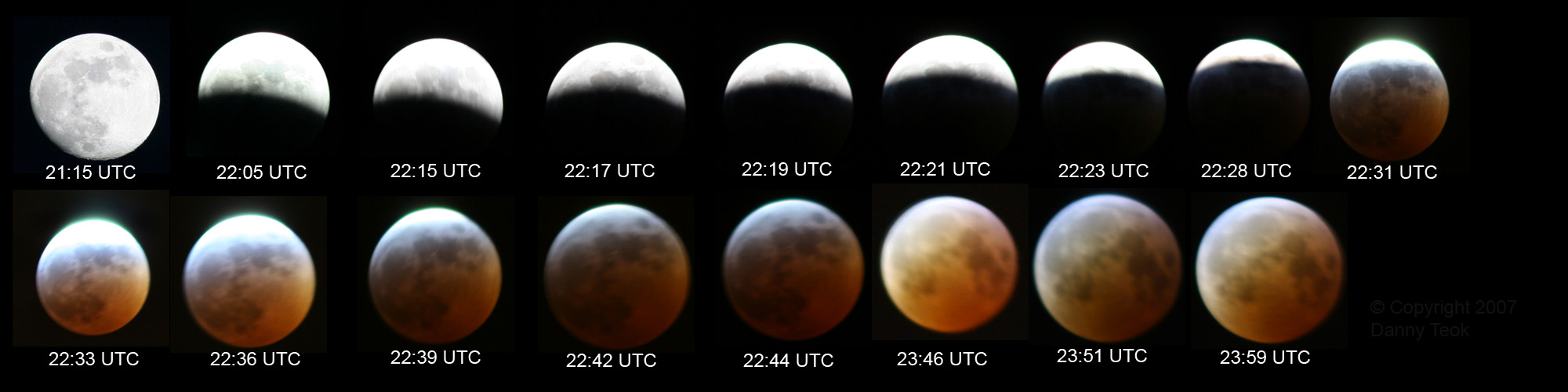 LnrEclpse3307, Selected intervals of the March 3 2007 lunar eclipse as seen from Leeds, England. Dat789 16:50, 5 March 2007 (UTC)